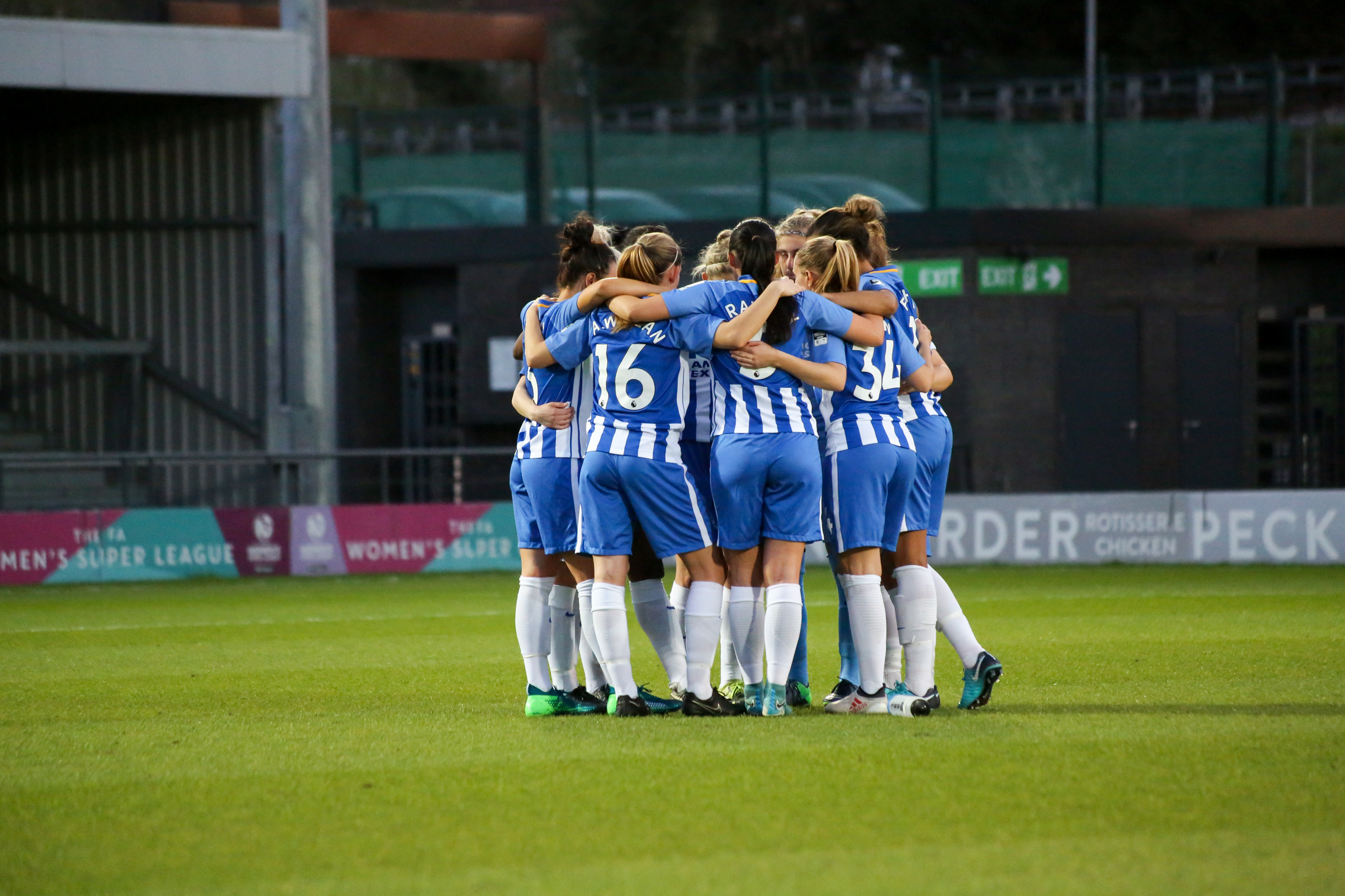 London Bees v Brighton & Hove Albion WFC, 18 April 2018